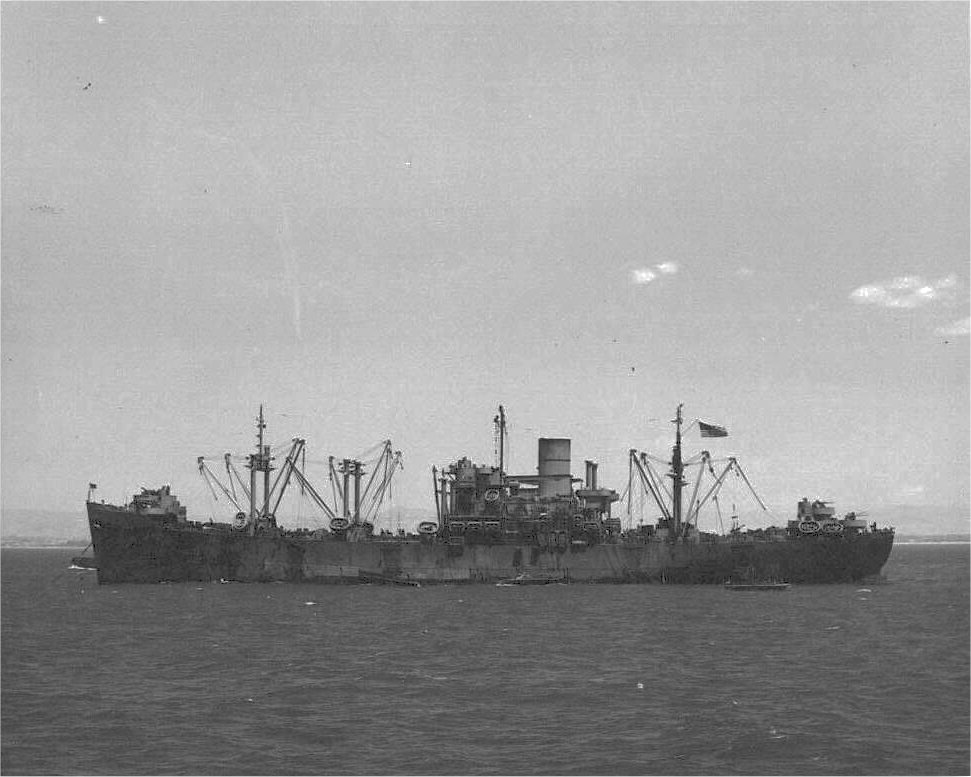 Elizabeth C. Stanton (AP-69) at anchor, date and place unknown. US National Archives photo.